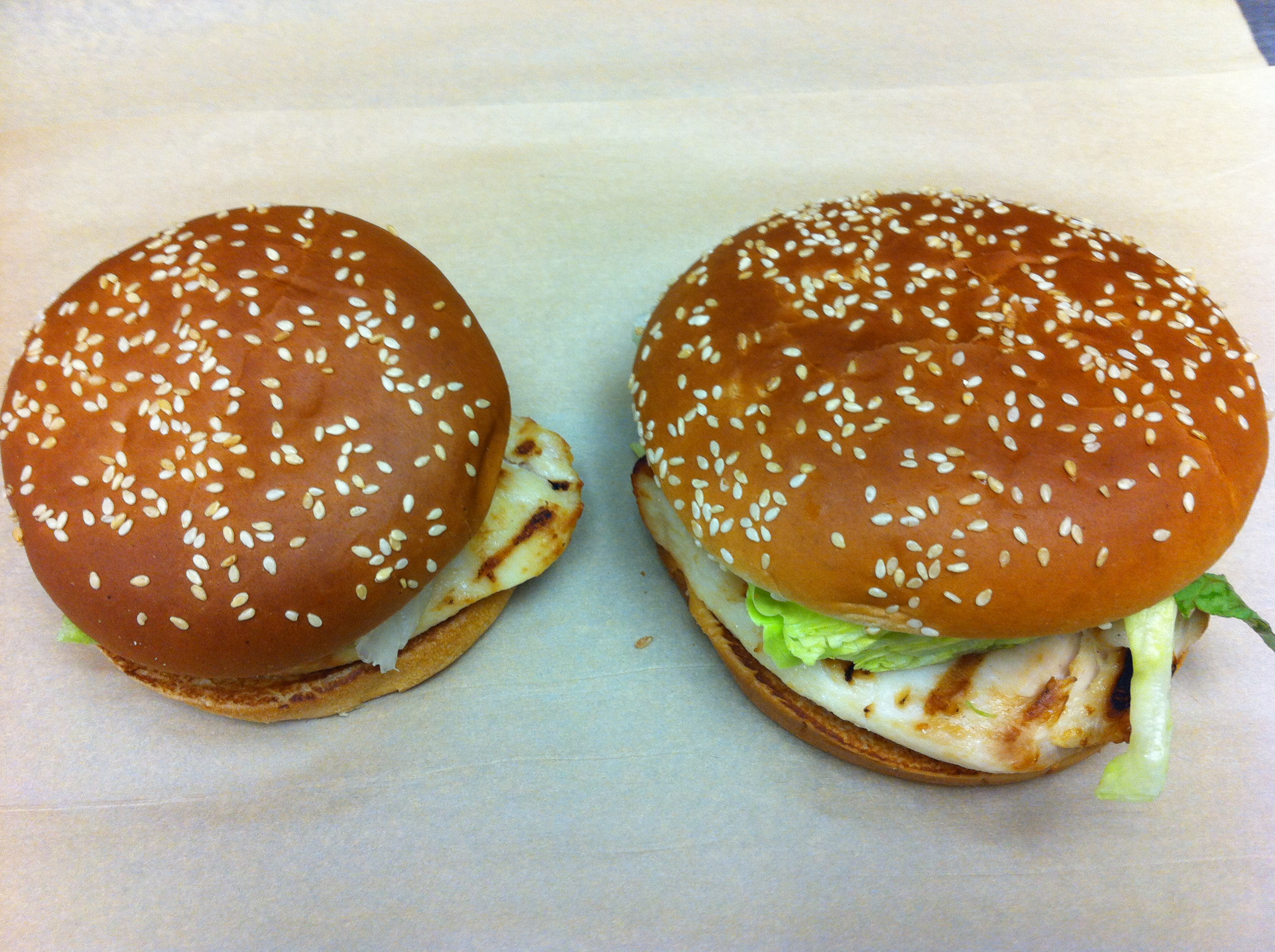 An example of the Chicken Whopper and the Chicken Whopper Jr. sandwiches.